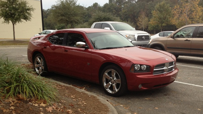 This is my 2008 Dodge Charger DUB Edition, using for the Dodge Charger LX article , DUB Edition section to give readers a visual.